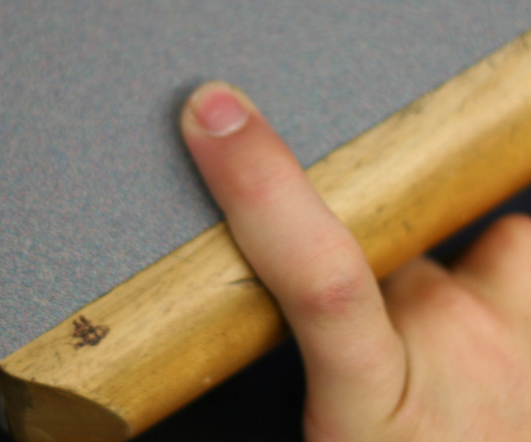 Pinky Finger